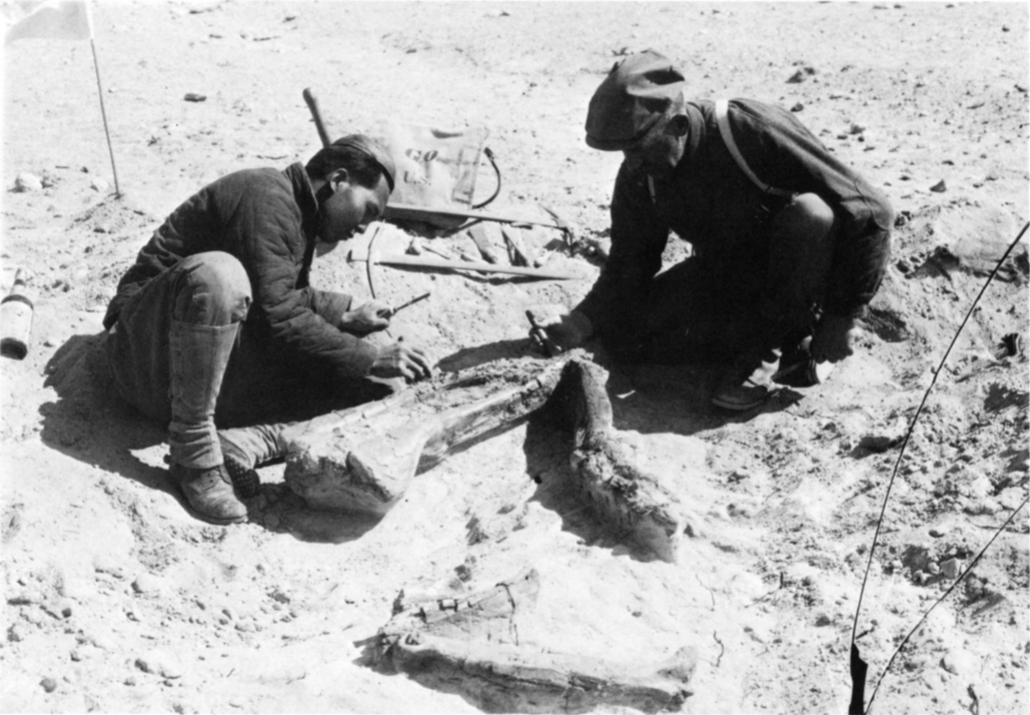 Excavating the hind limb of Alectrosaurus olseni, field No. 136, about 200 yards south of the camp at Iren Dabasu Telegraph Station in Mongolia, 1923.